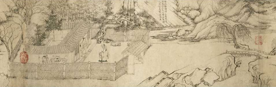 Detail of scroll painting by Qiao Zhongchang, Illustration to the Second Prose Poem on the Red Cliff, Nelson-Atkins Museum of Art